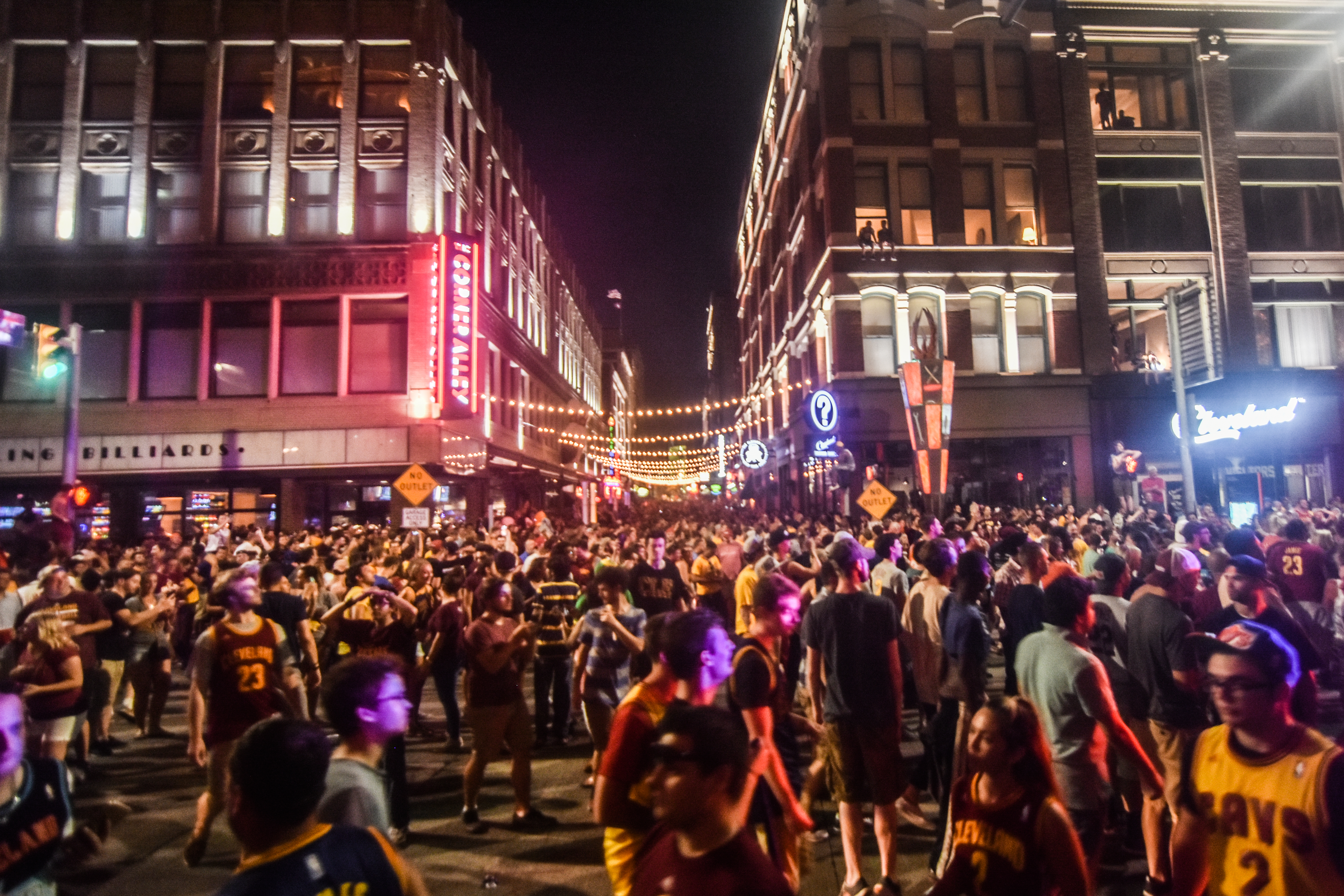 Cleveland Cavaliers 2016 NBA Finals Champions